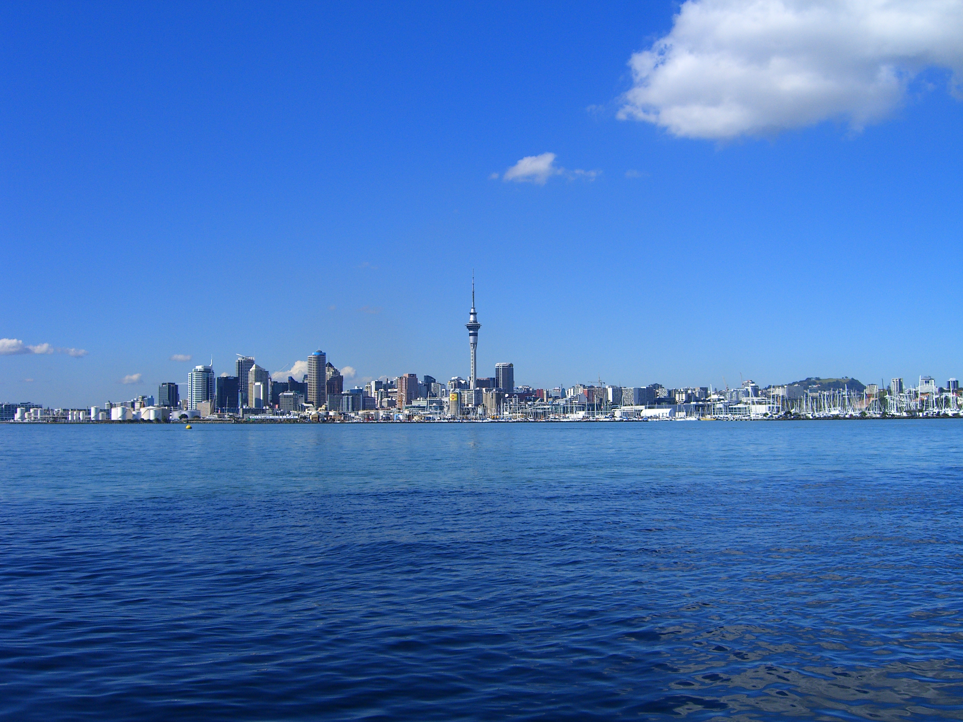 Auckland skyline from underneath the Harbour Bridge